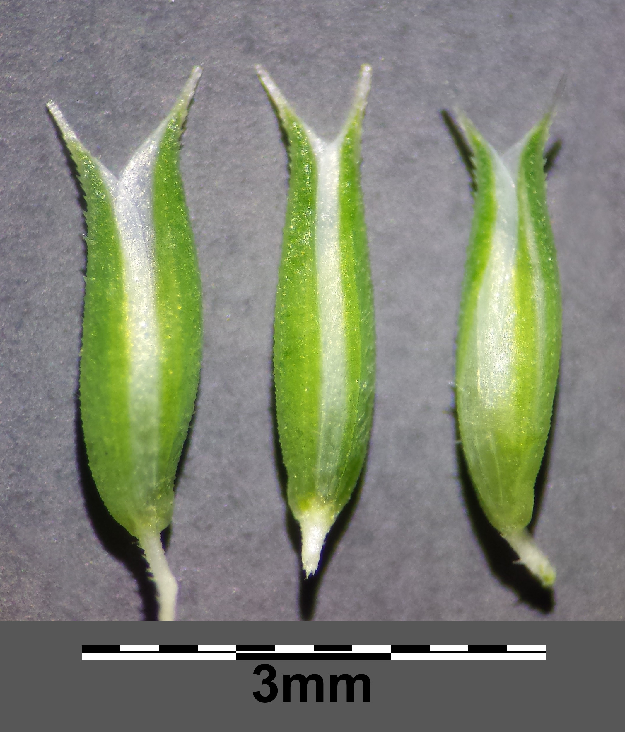 Spikelets Taxonym: Phleum phleoides ss Fischer et al. EfÖLS 2008 ISBN 978-3-85474-187-9 Location: Waldberg in between Kleinebersdorf und Großrußbach, district Korneuburg, Lower Austria - ca. 334 m a.s.l. Habitat: semi-dry grassland